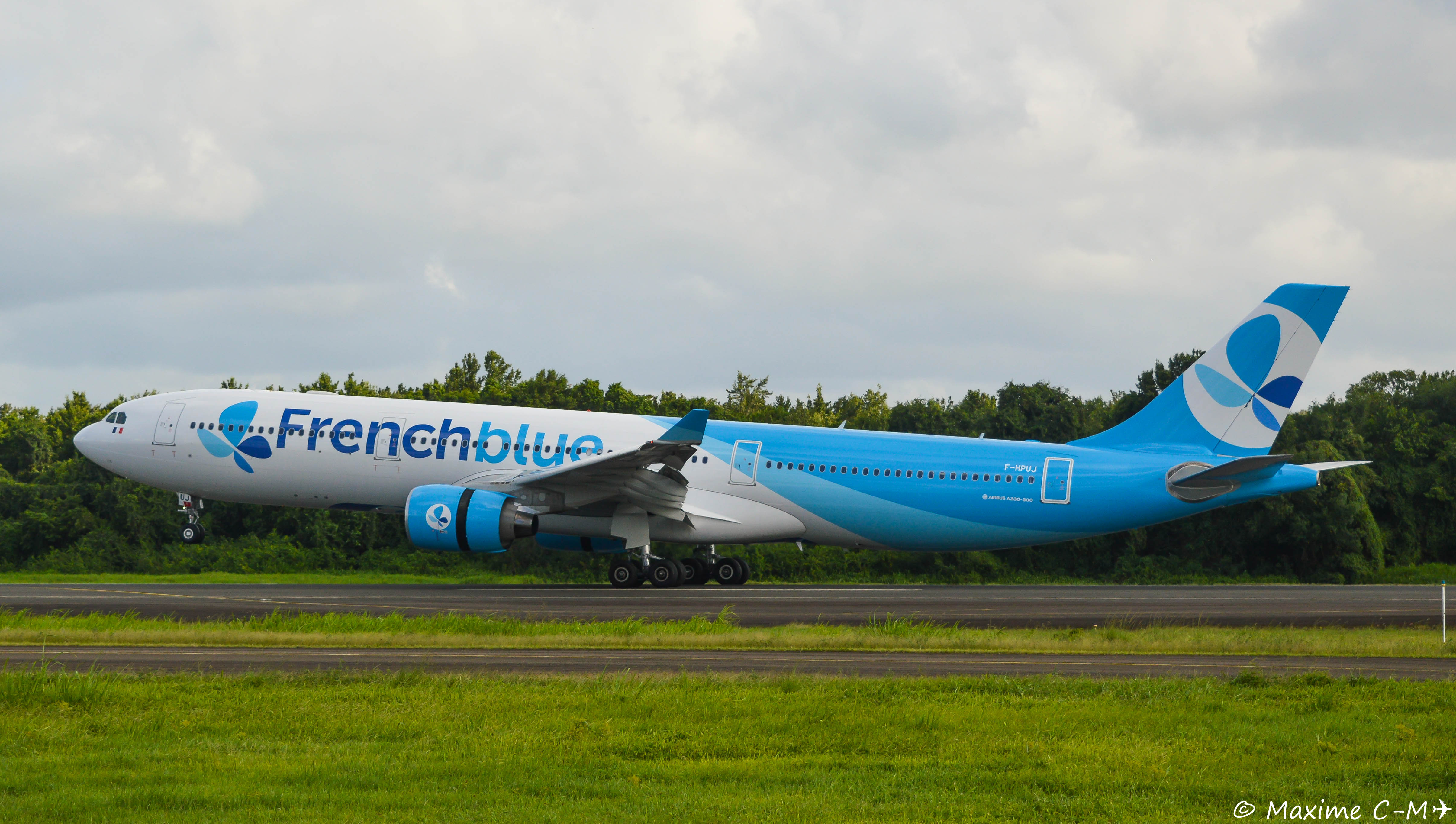 F-HPUJ 🇫🇷 French blue 🇫🇷 Airbus A330-323 TFFF / FDF 🇲🇶